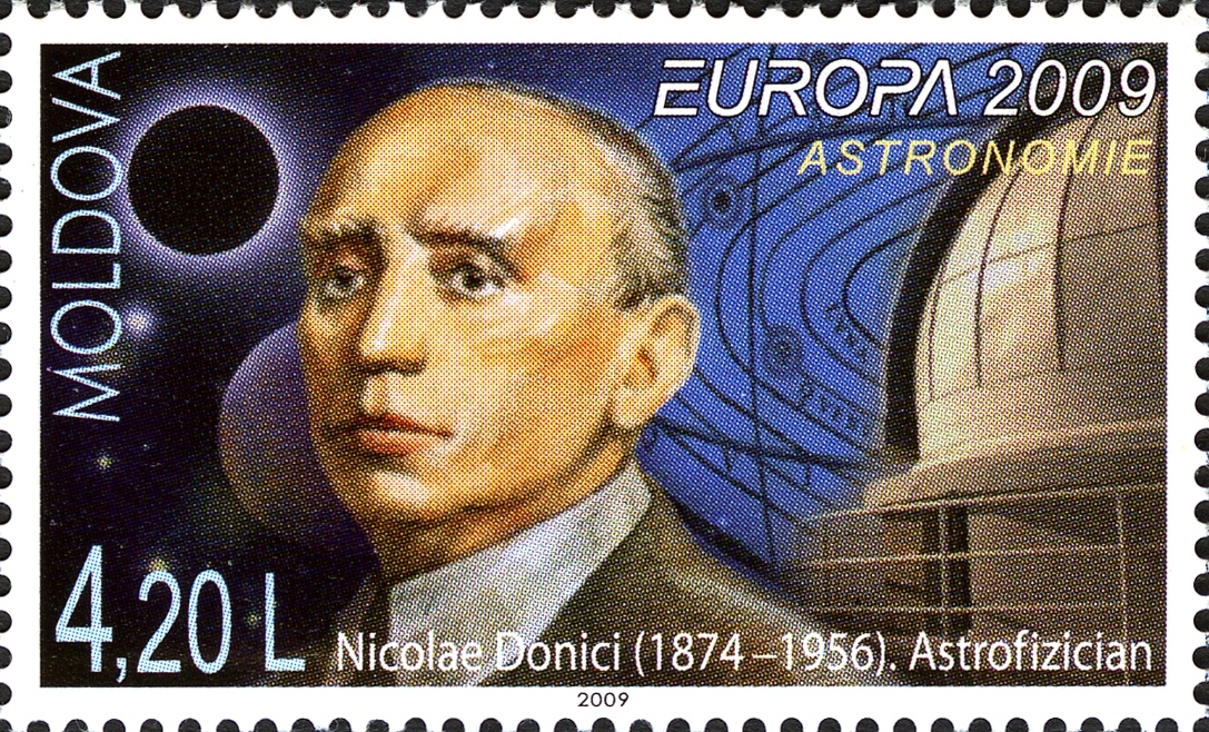 Stamps of Moldova